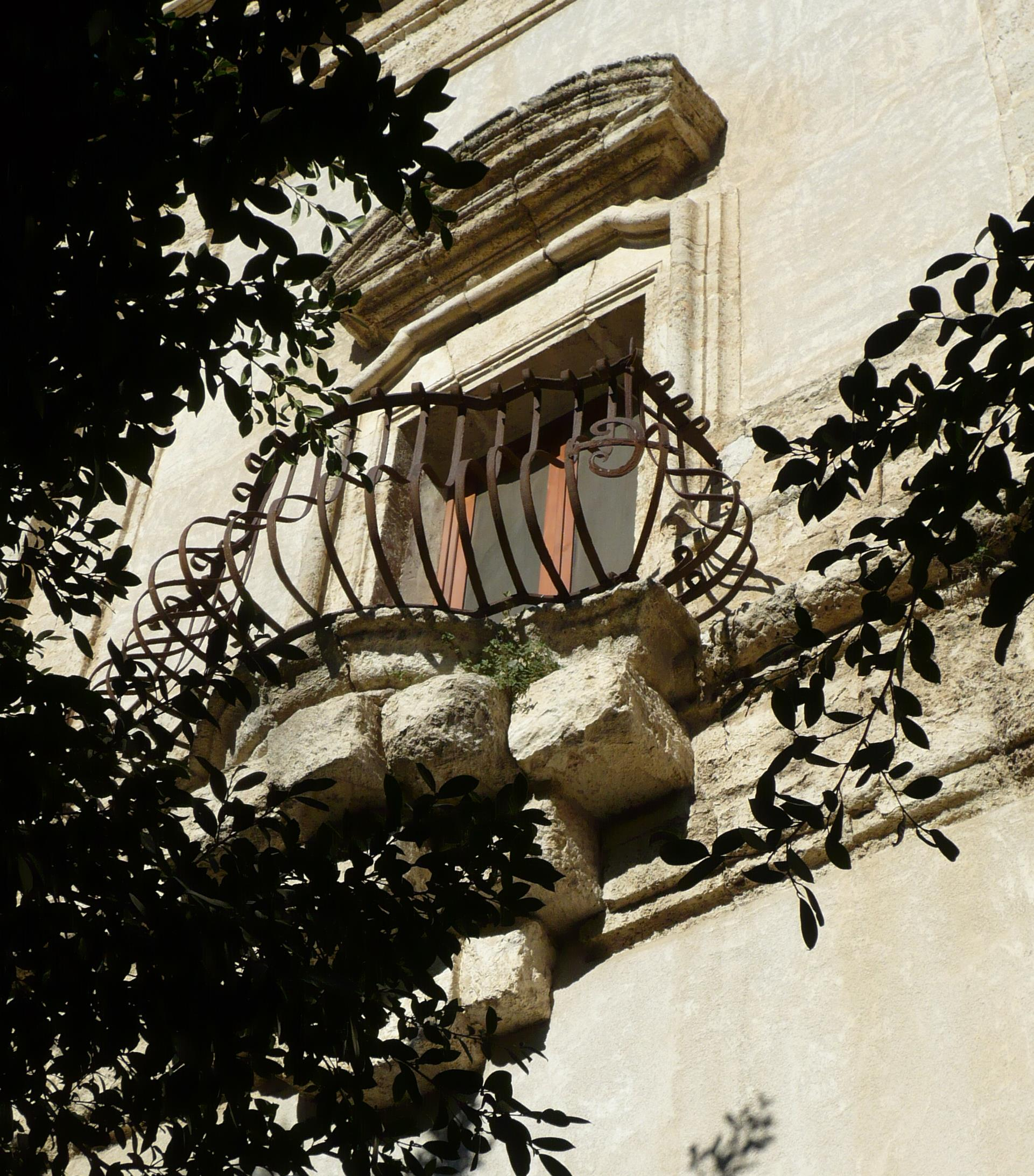 Spanish balcony of the seventeenth century, in the bell tower of the Cathedral